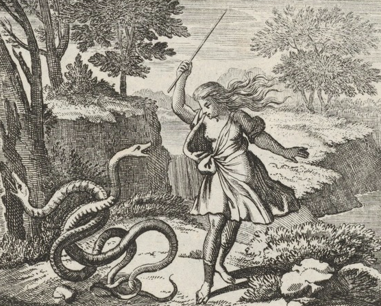 The Greek mythological prophet Tiresias is transformed into a woman by the goddess Hera, after striking two copulating snakes with a stick. Engraving taken from Die Verwandlungen des Ovidii : in zweyhundert und sechs- und zwantzig Kupffern (The metamorphoses of Ovid) by Johann Ulrich Krauss, c. 1690.